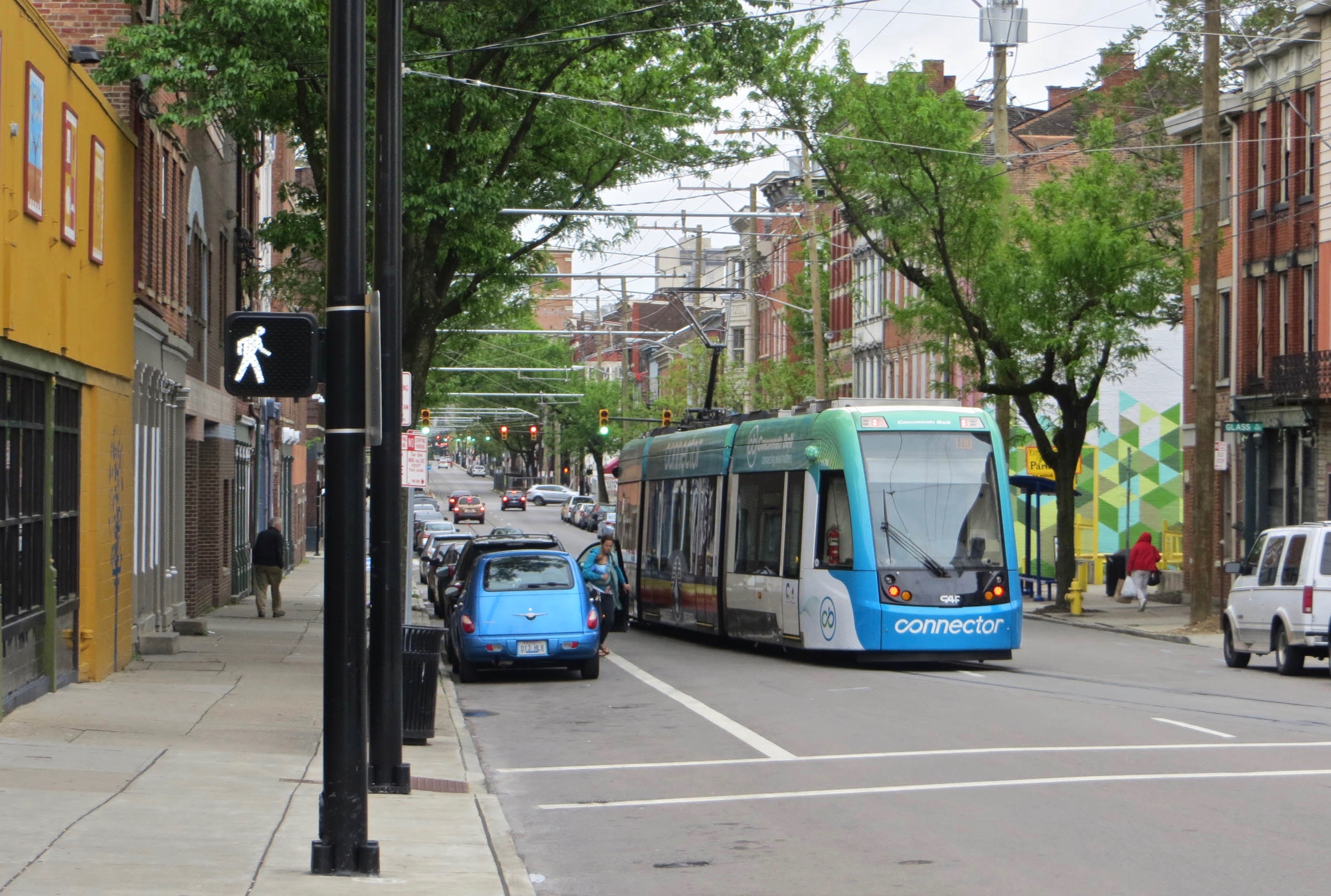 Rear view (going away from camera) of a Cincinnati Bell Connector streetcar southbound on Race Street at Glass Alley